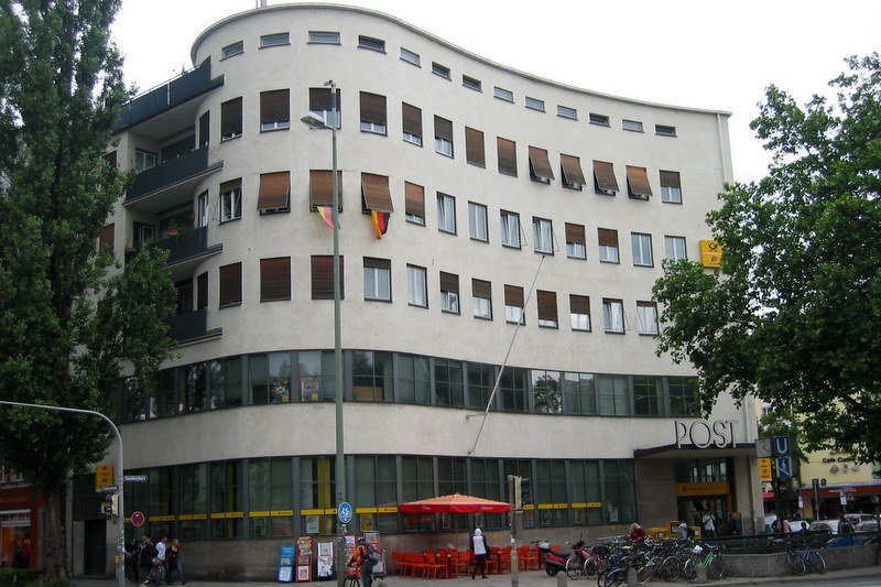 Postamt am Goetheplatz